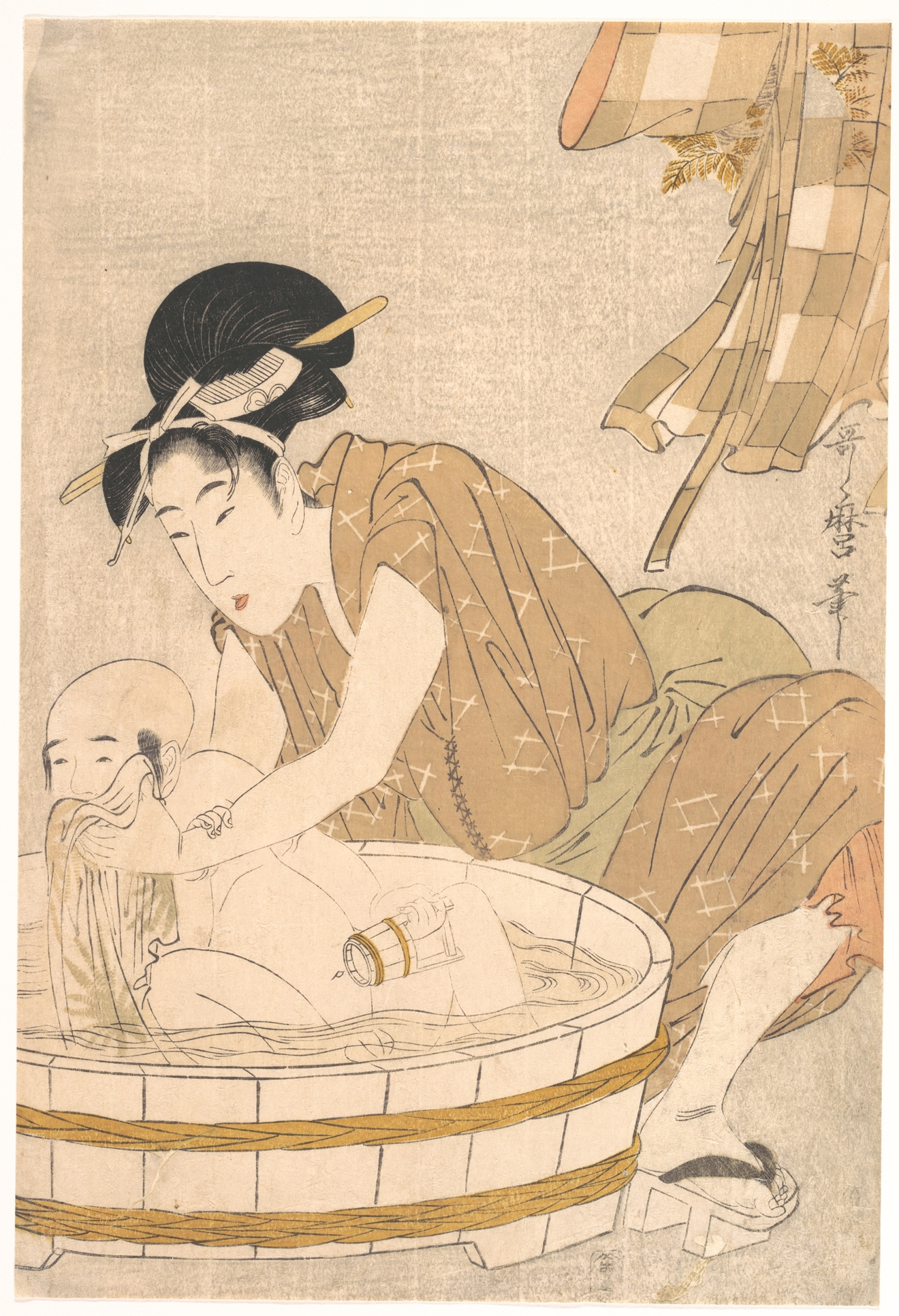 Woman Washing an Infant Girl in a Tub